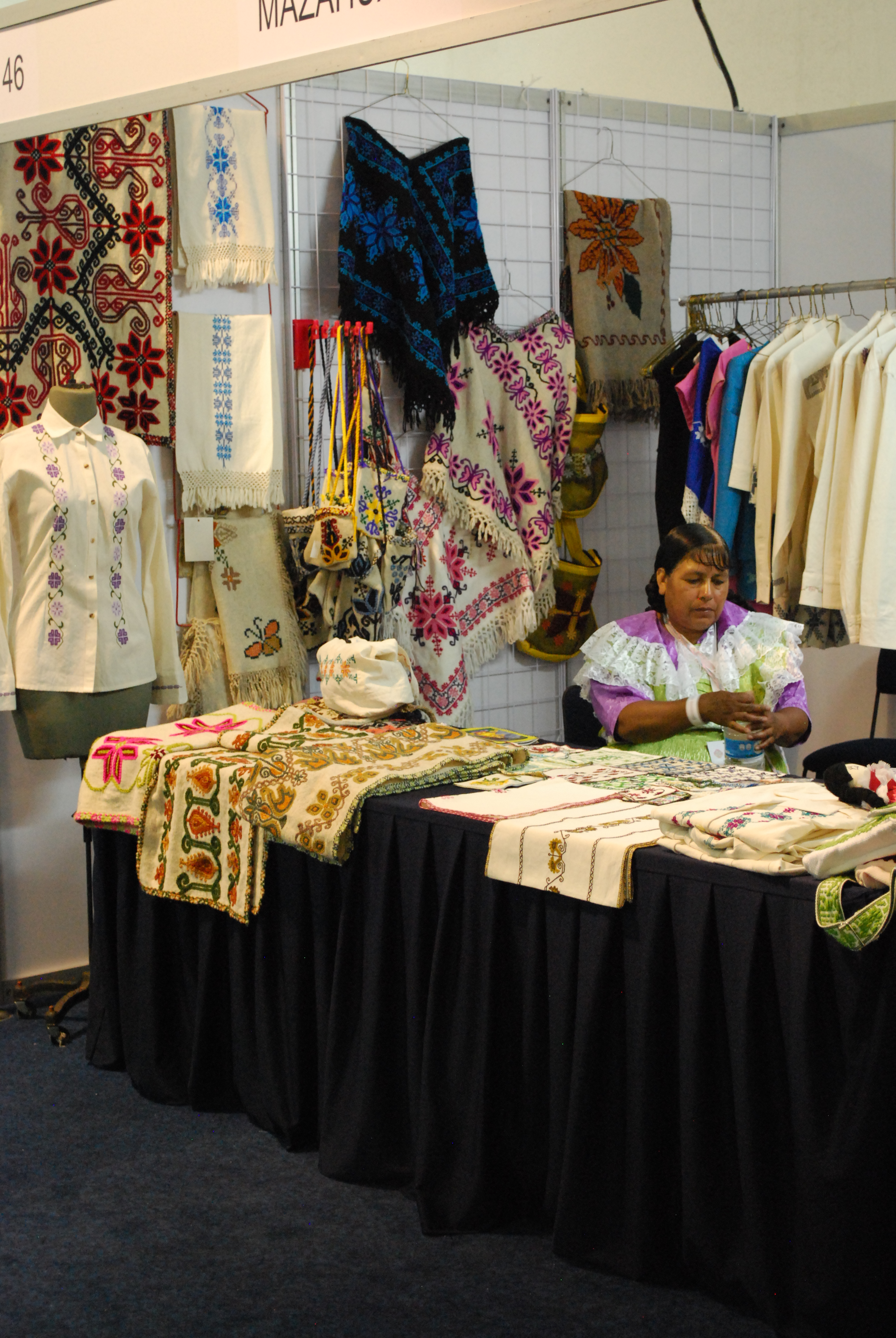 Mazahuart stand from Villa de Allende, State of Mexico at the Expo de los Pueblos Indigenas in Mexico City